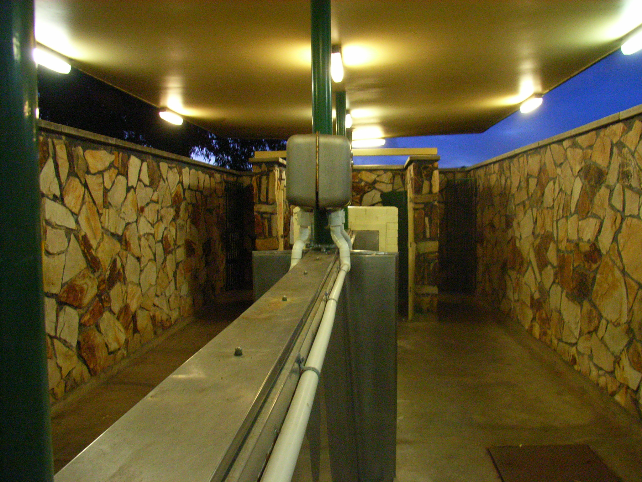 convenient and stylish urinal